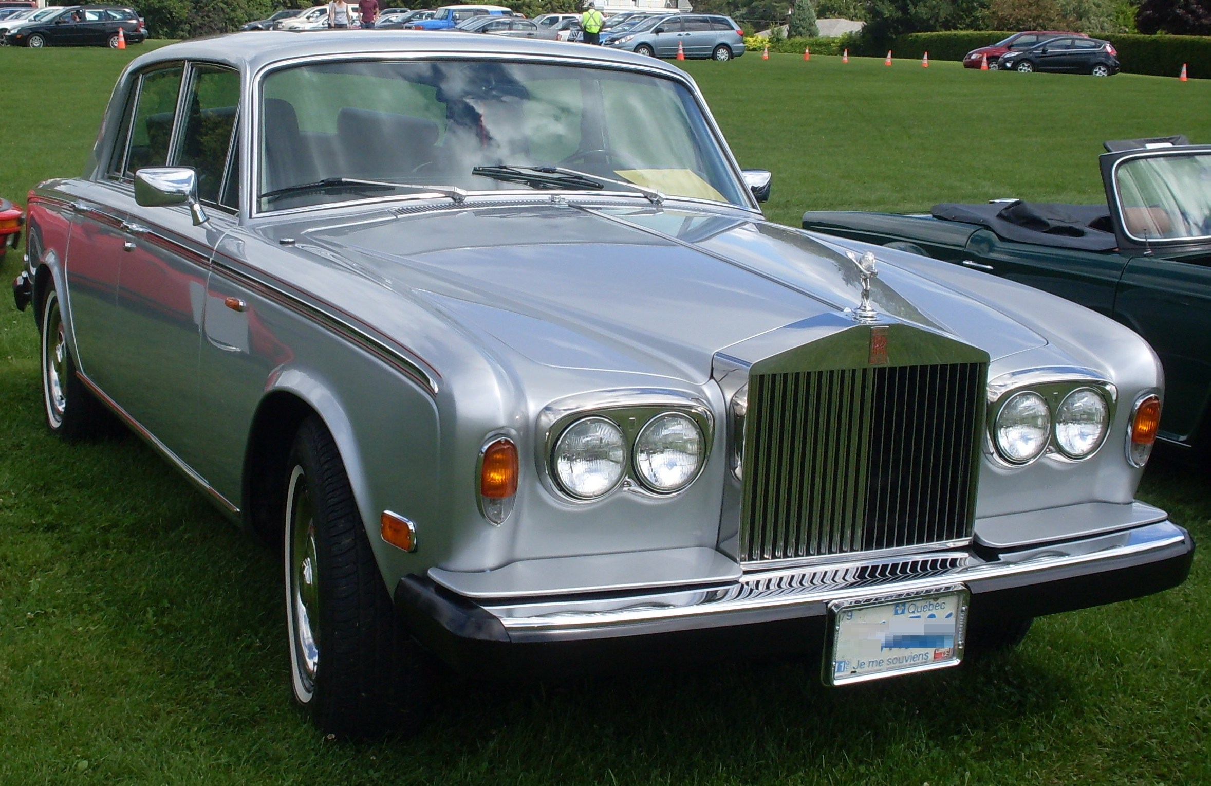 1979 Rolls-Royce Silver Shadow photographed in Baie-D'Urfé, Quebec, Canada at Auto classique VAQ Baie-D'Urfé.